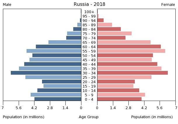 The population pyramid of Russia illustrates the age and sex structure of population and may provide insights about political and social stability, as well as economic development. The population is distributed along the horizontal axis, with males shown on the left and females on the right. The male and female populations are broken down into 5-year age groups represented as horizontal bars along the vertical axis, with the youngest age groups at the bottom and the oldest at the top. The shape of the population pyramid gradually evolves over time based on fertility, mortality, and international migration trends.